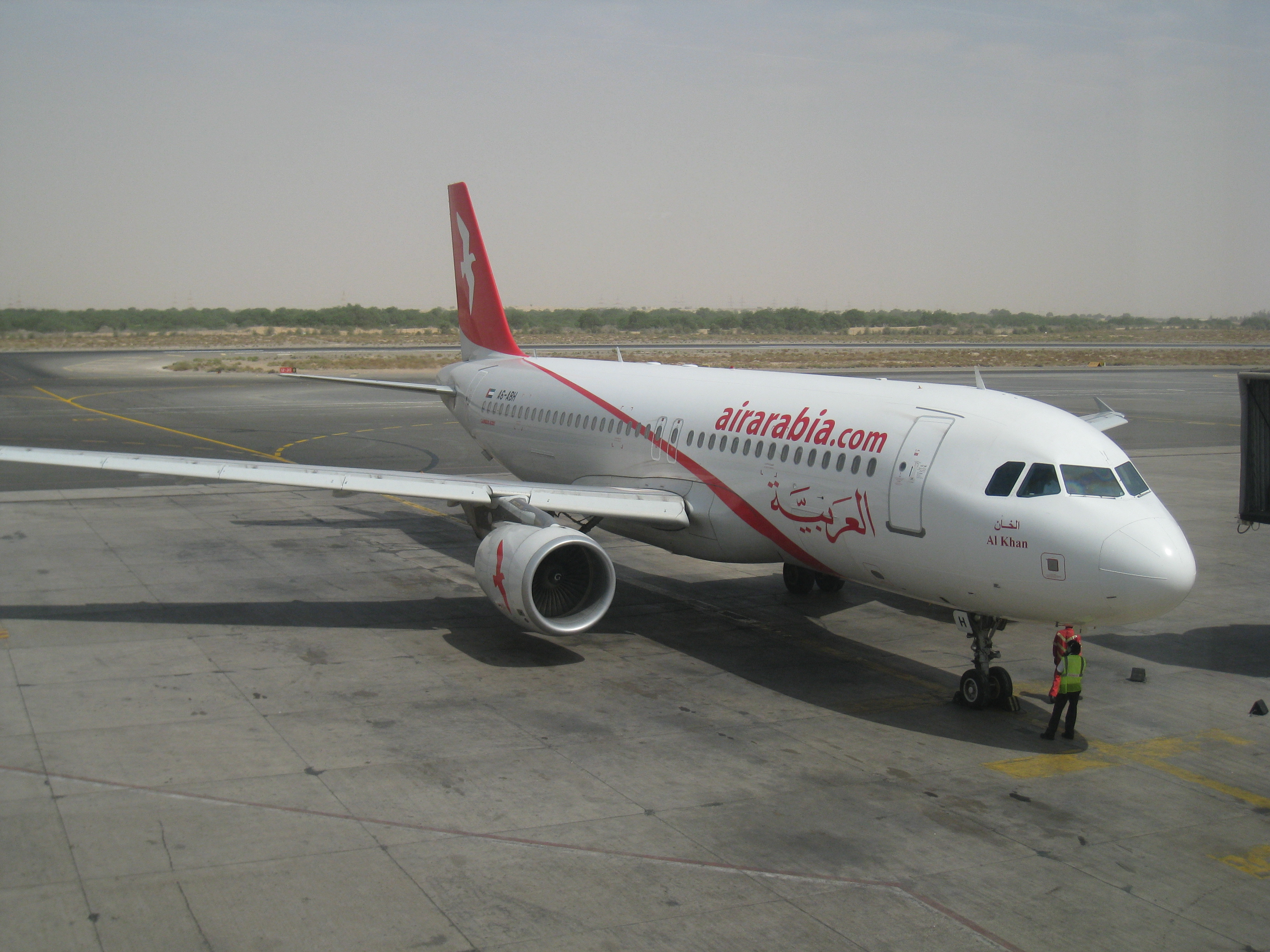 An Air Arabia Airbus A320.